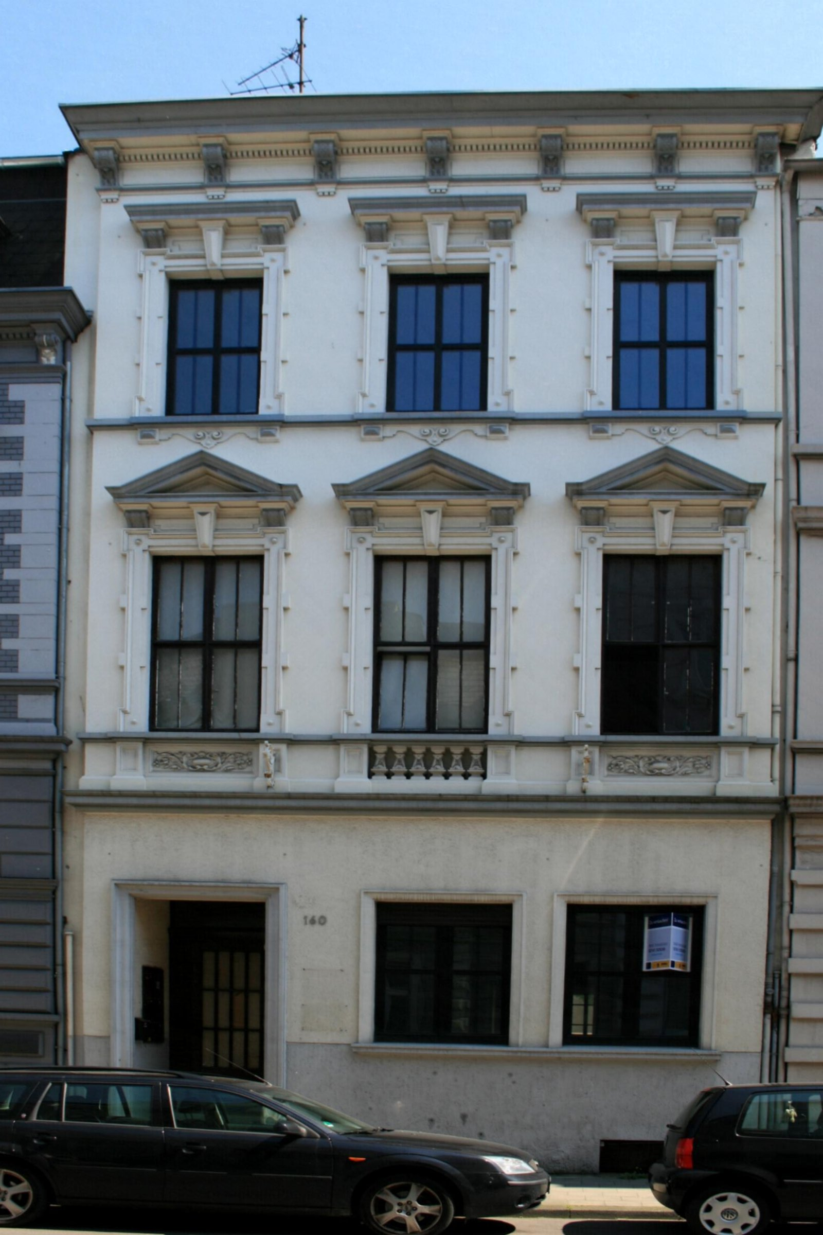 Cultural heritage monument No. R 067 in Mönchengladbach